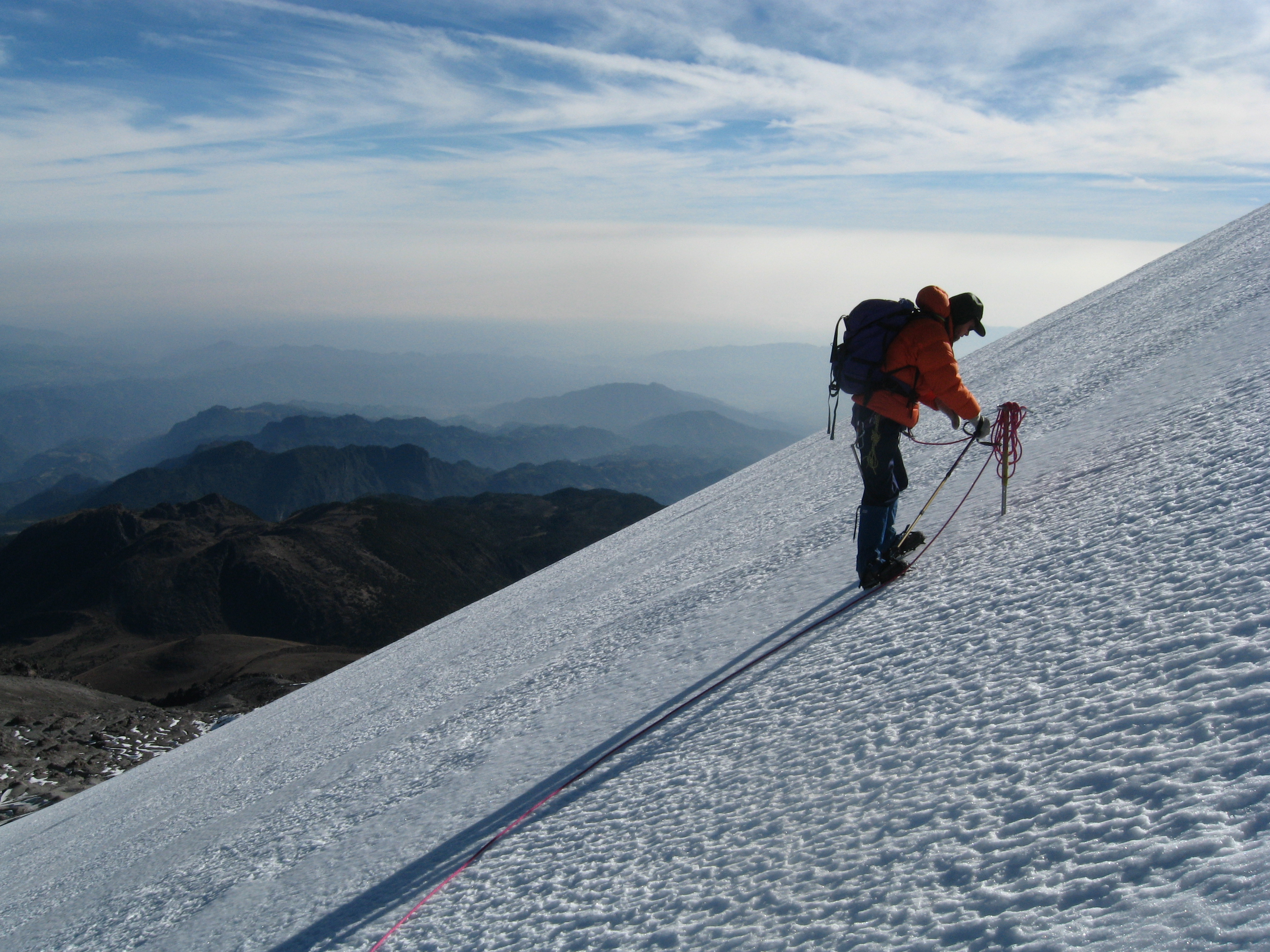 On Glacier de Jamapa (Ruta Norte) at c.5,300m, nearing the summit of Pico de Orizaba, Veracruz, Mexico. This is the "normal" uncrevassed route from Piedra Grande Hut where few difficulties are encountered, though acclimatisation to altitude is essential.